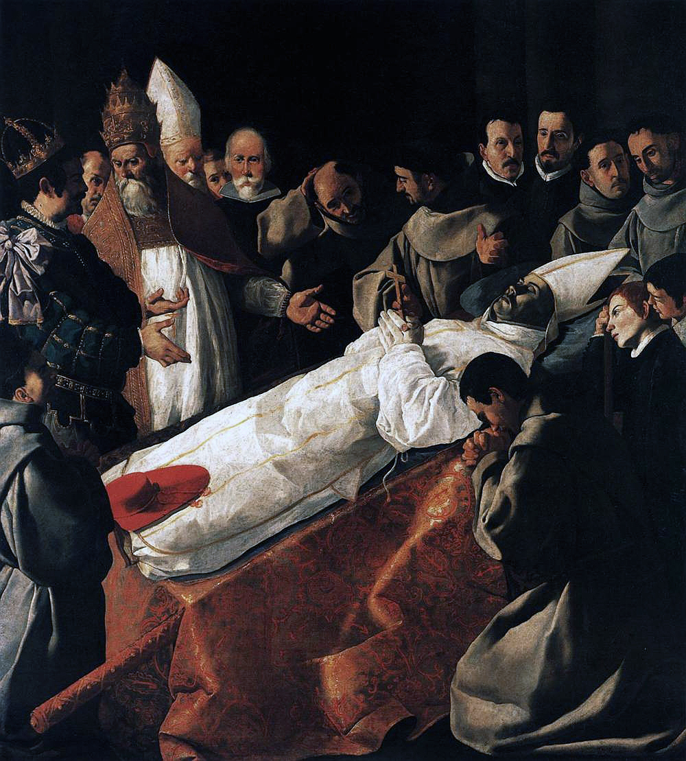 The Lying-in-State of St. Bonaventura (en:1629) by Francisco Zurbarán Oil-on-canvas 250x225cm. The original may be found at the Musée du Louvre, Paris, France.